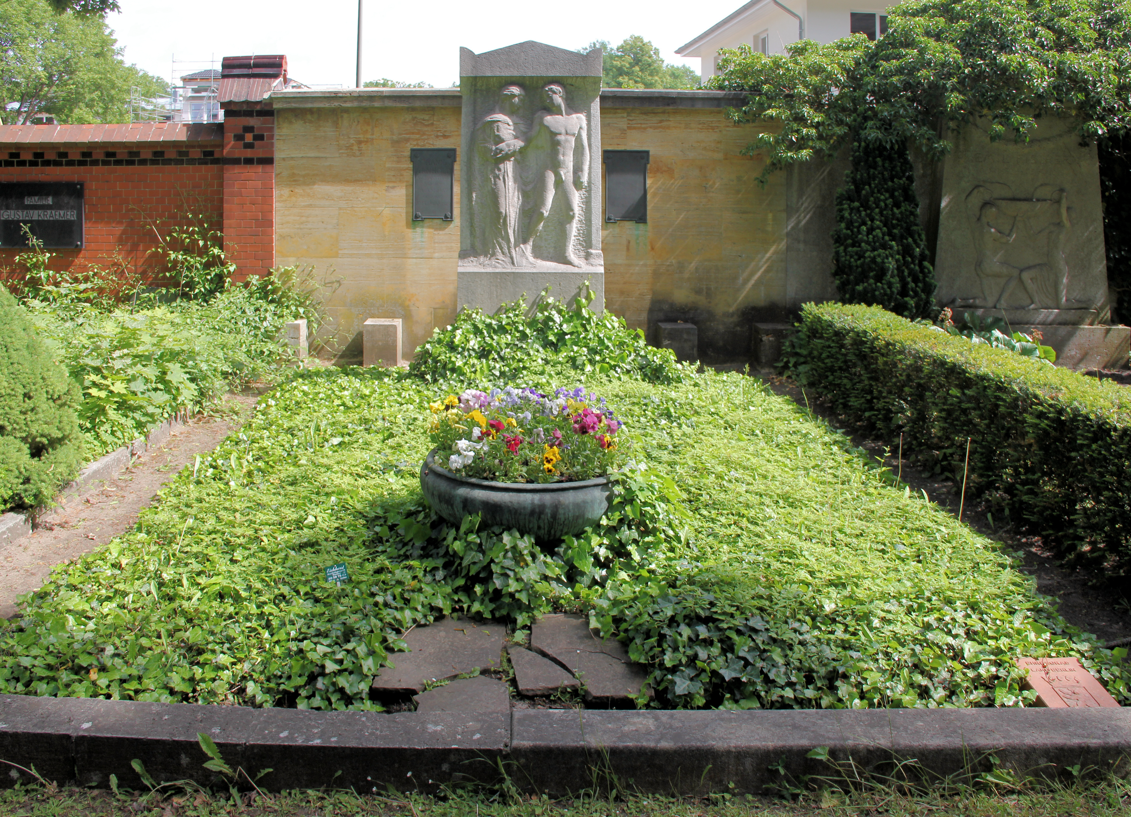 "Ehrengrab" (grave of honor), Eduard Arnhold, Lindenstraße 1, Berlin-Wannsee, Germany Koordinate:52°25′31″N 13°9′12″E / 52.42528°N 13.15333°E